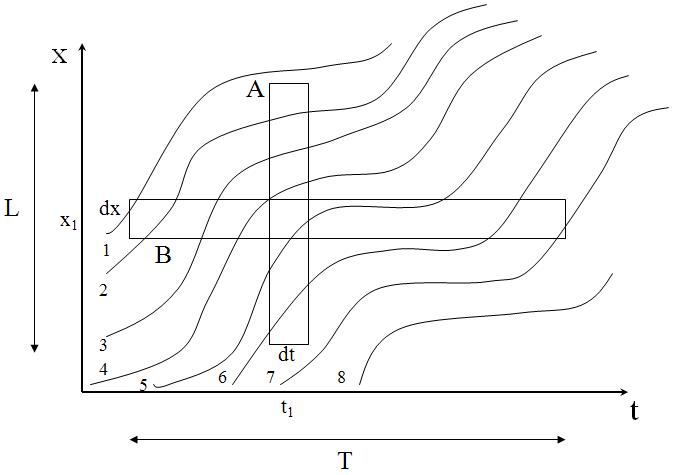 Traffic flow time-space diagram showing areas for analyzing k and q.